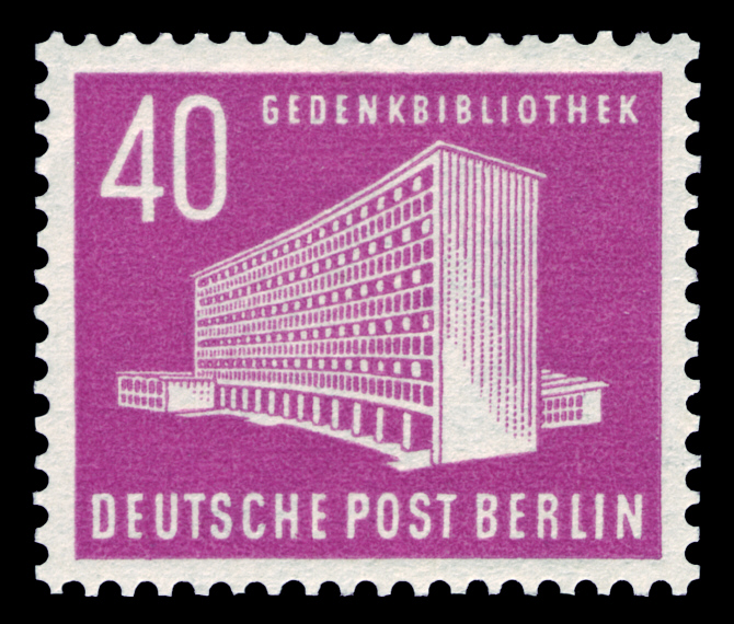 Definitive stamp series Buildings of Berlin (III)